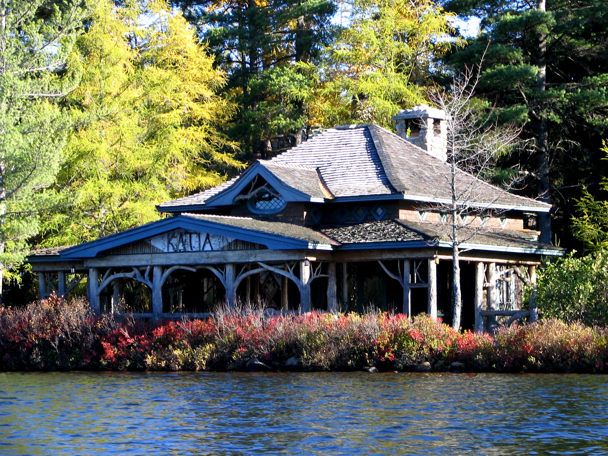 Camp Katia on Upper St. Regis Lake. Taken by User:Mwanner, 22 October, 2007.